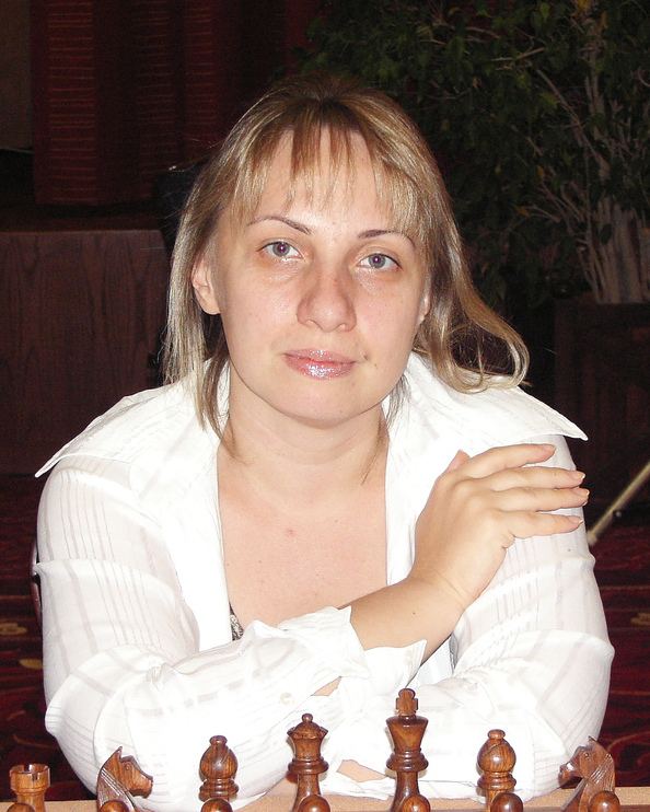 WGM Ekaterina Kovalevskaya (Russia), Heraklion 2007